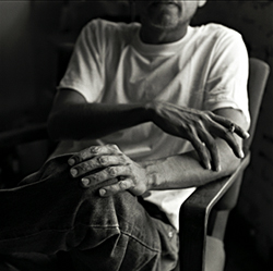 area man in white tee shirt.